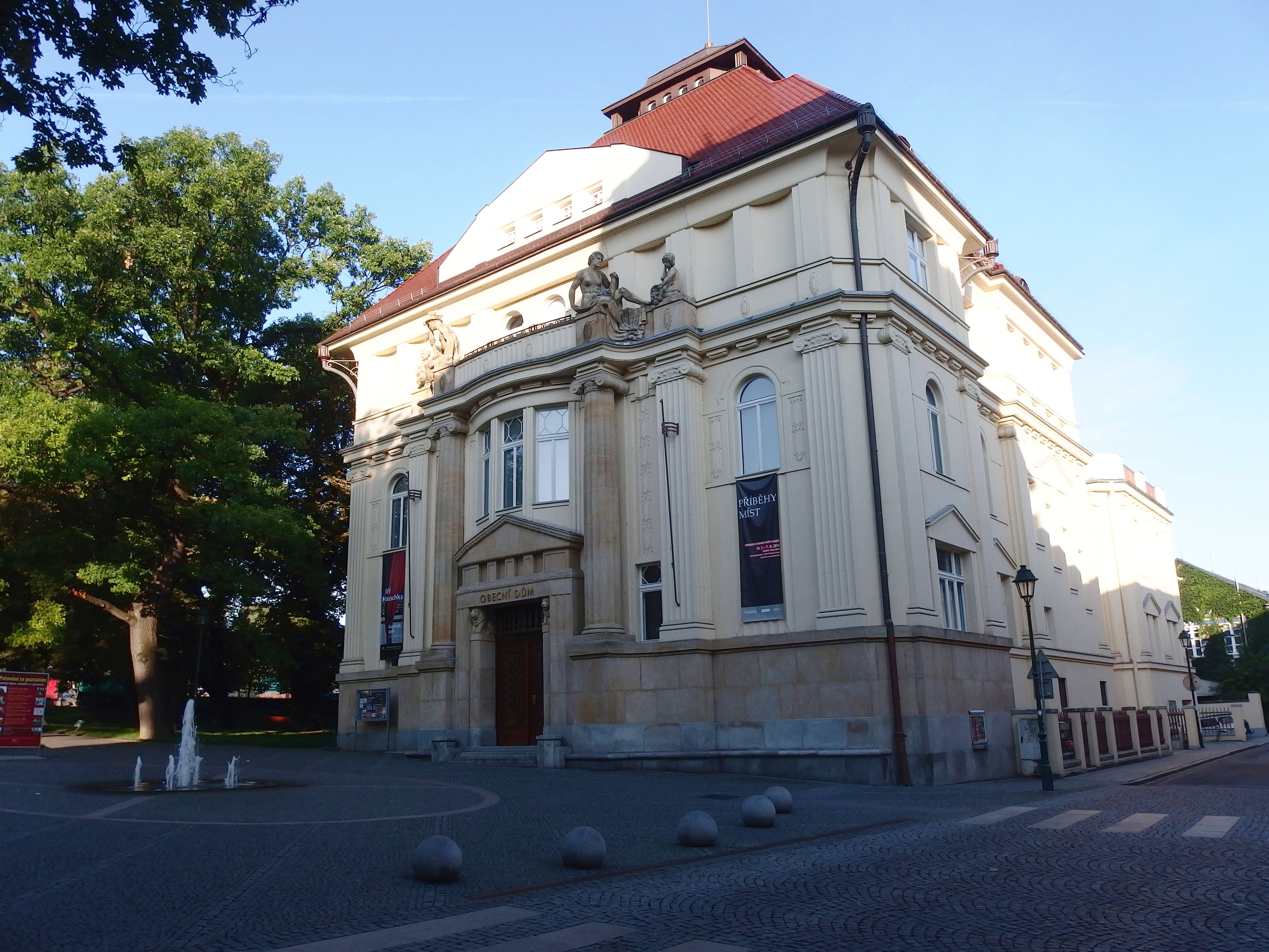 Opava, Czech Republic.